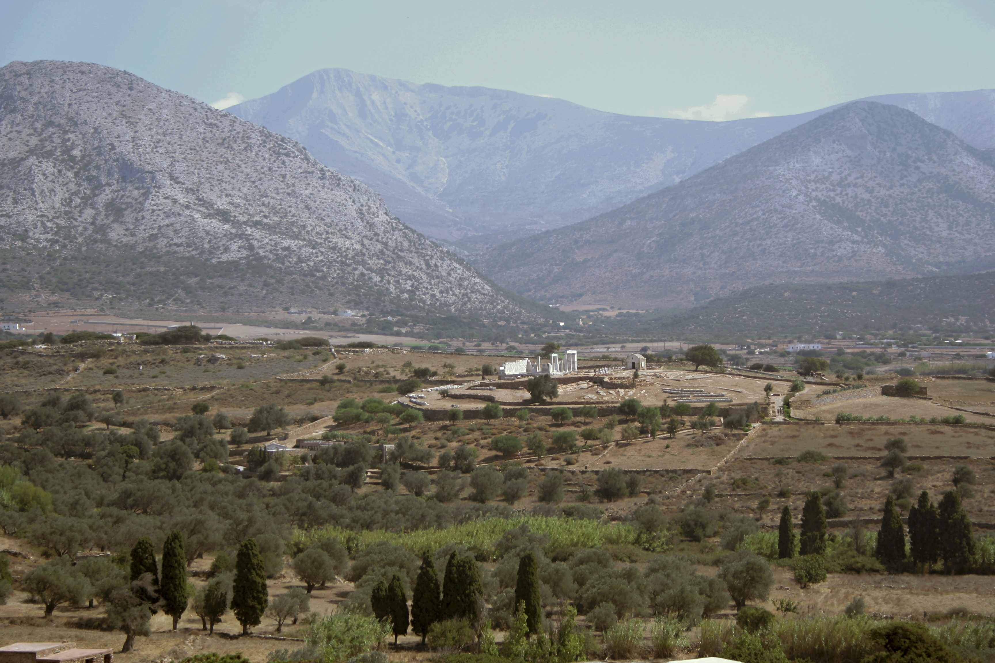 Demetrion in Gyroulas on Naxos. Is seen being situated near the mouth of the valley from the holy mountain Zas, 7 km away. On the left is part of the double hill, another hill is to the right.